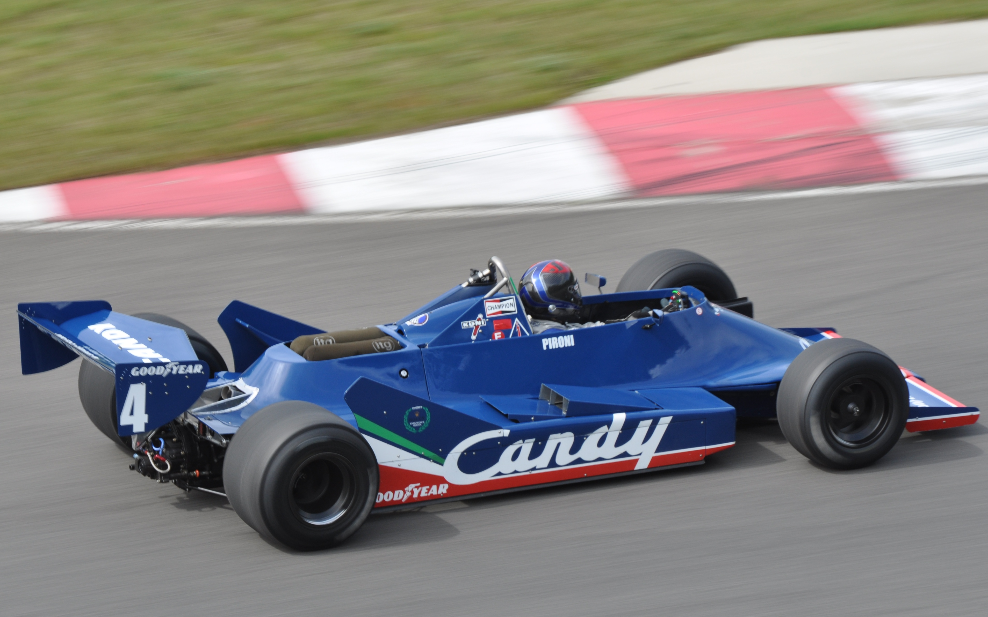 Greg Galdi at the wheel of an ex-Didier Pironi Tyrrell 009 Formula One racing car, during the 2010 Legends of Motorsport meeting at Circuit Mont-Tremblant.